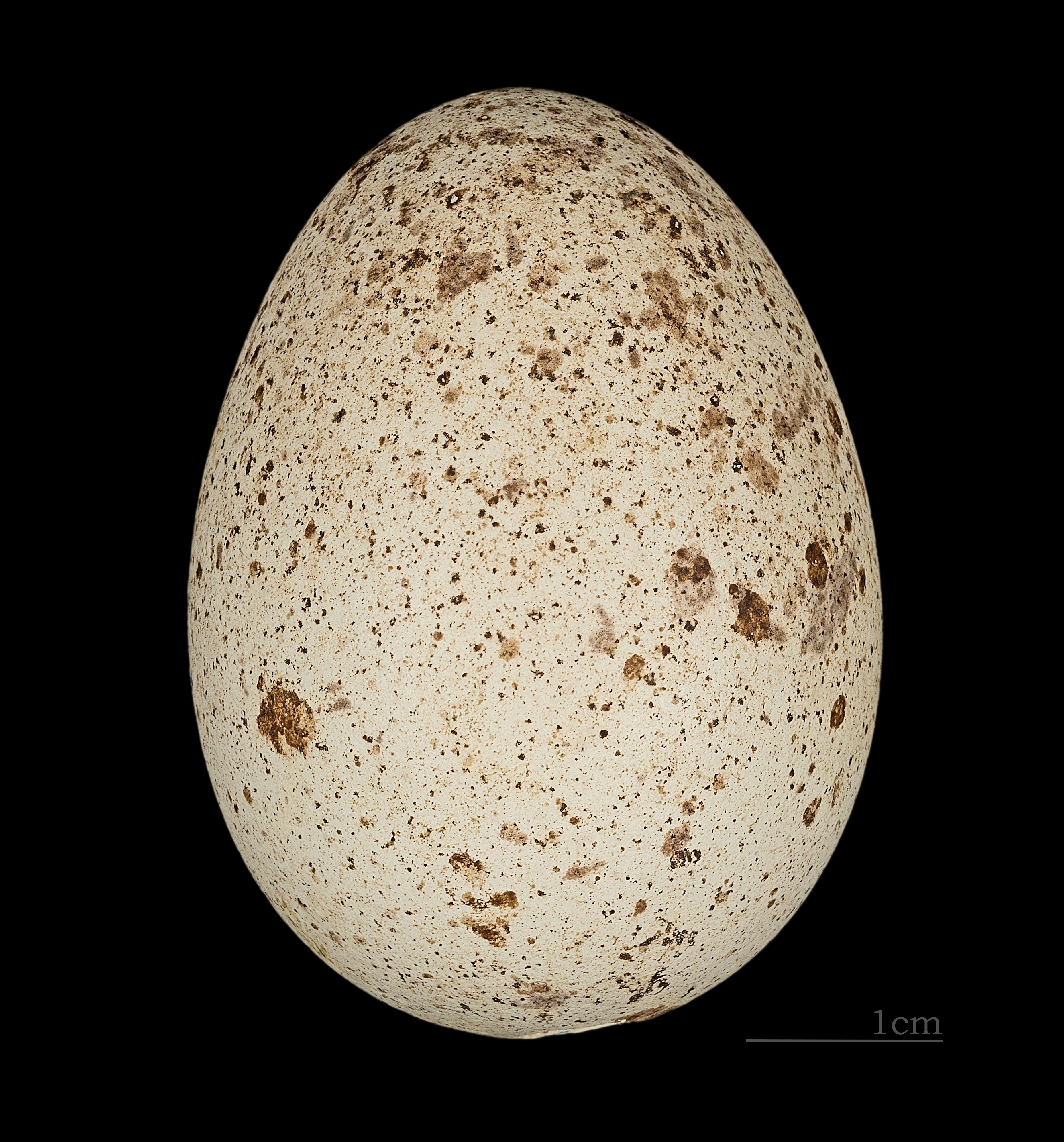 Egg of Laggar Falcon Collection of Jacques Perrin de Brichambaut.